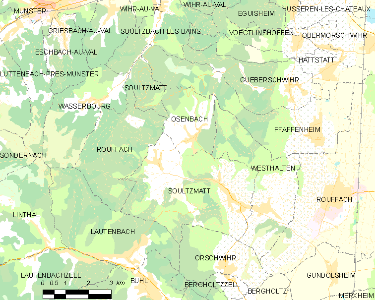 Map of French municipality